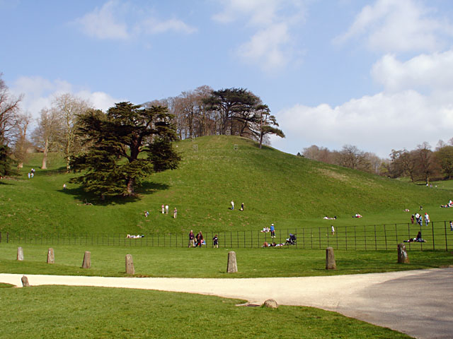 View towards the Old Lodge Standing by Dyrham House looking north-east towards the Old Lodge which is at the top of this hill in the trees.